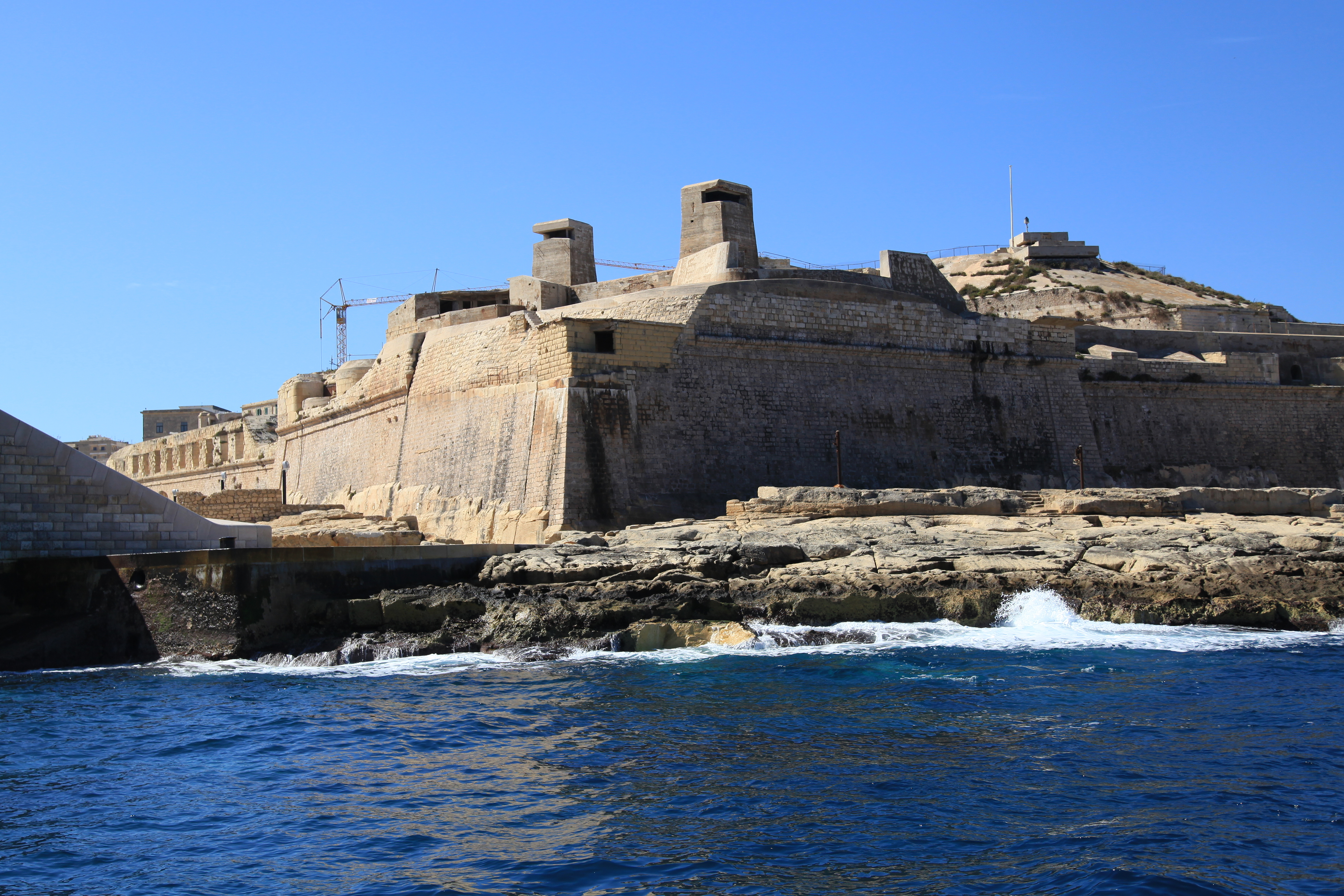 View from a Malta sightseeing two harbours cruise boat to Fort Saint Elmo at Triq il-Lanċa in Valletta, Malta